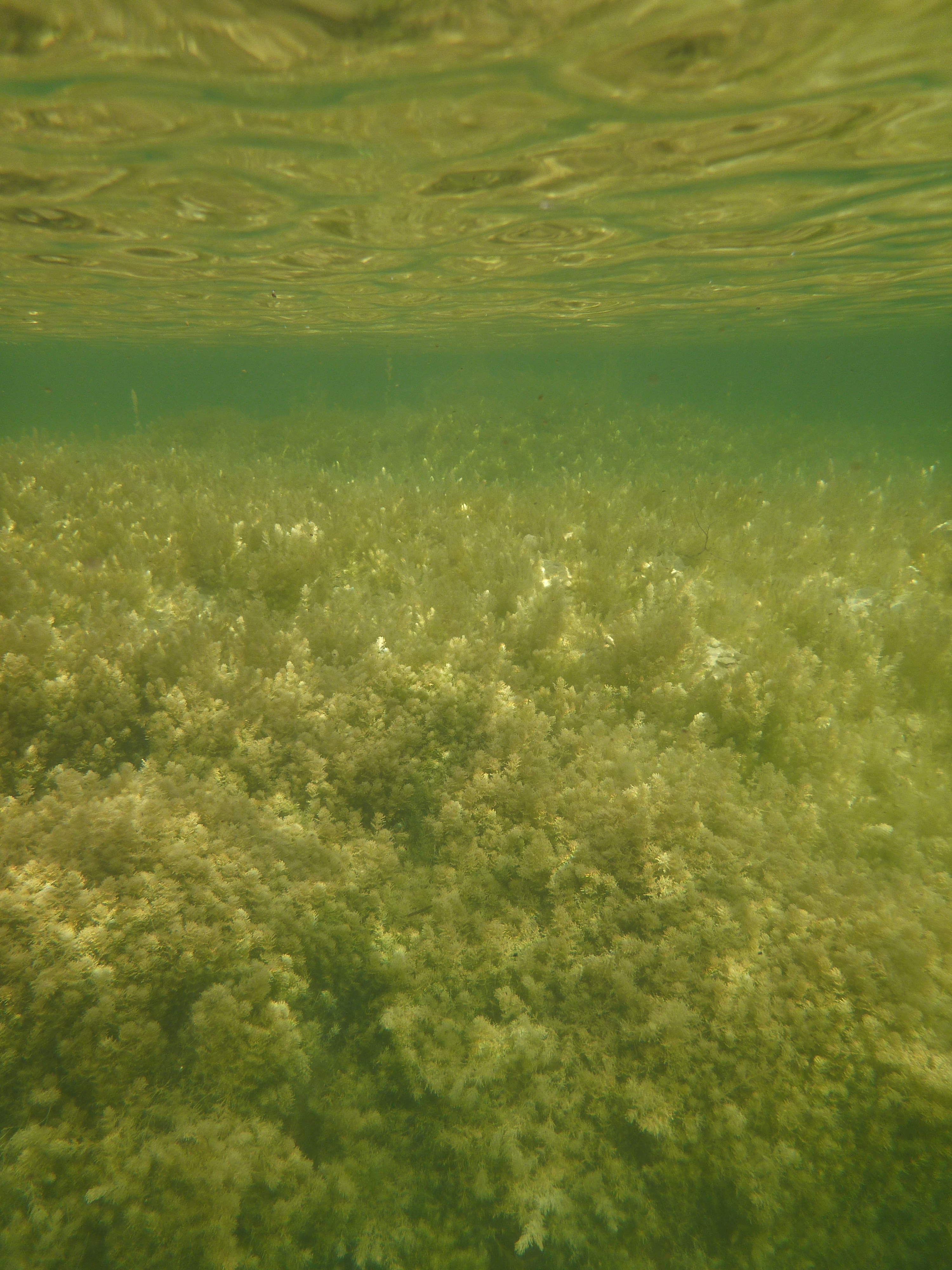 Stonewort meadow, Lake Indawarra, Tintinara. Photo taken underwater.